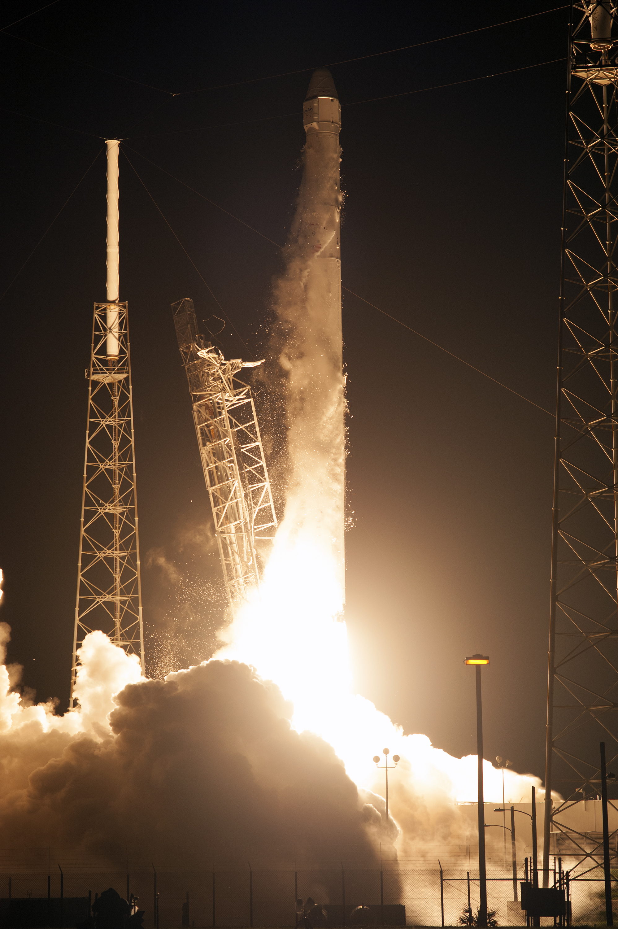 CAPE CANAVERAL, Fla. – The umbilical tower moves away from the Falcon 9 rocket as it lifts off Space Launch Complex 40 on Cape Canaveral Air Force Station in Florida, carrying the SpaceX CRS-4 mission to orbit. Liftoff was at 1:52 a.m. EDT. The mission is the fourth of 12 SpaceX flights NASA contracted with the company to resupply the space station. It will be the fifth trip by a Dragon spacecraft to the orbiting laboratory. The spacecraft’s 2.5 tons of supplies, science experiments, and technology demonstrations include critical materials to support 255 science and research investigations that will occur during the station's Expeditions 41 and 42. To learn more about the mission, visit